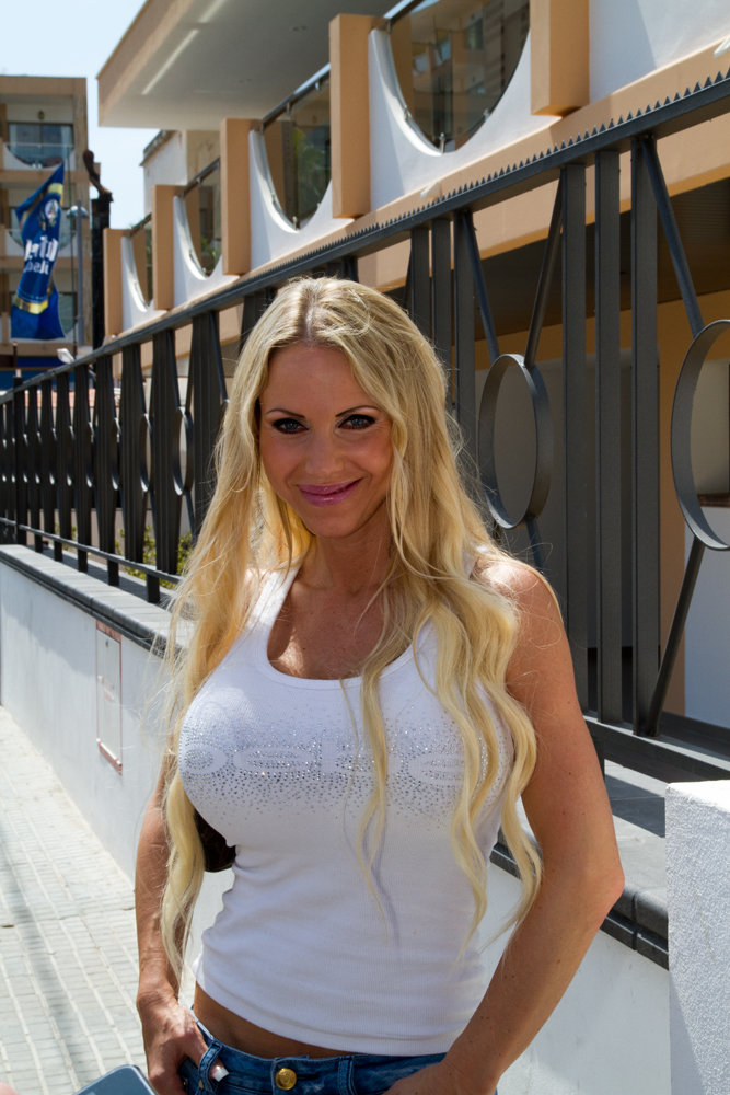 Annina Ucatis (2011/05/01) - Mallorca